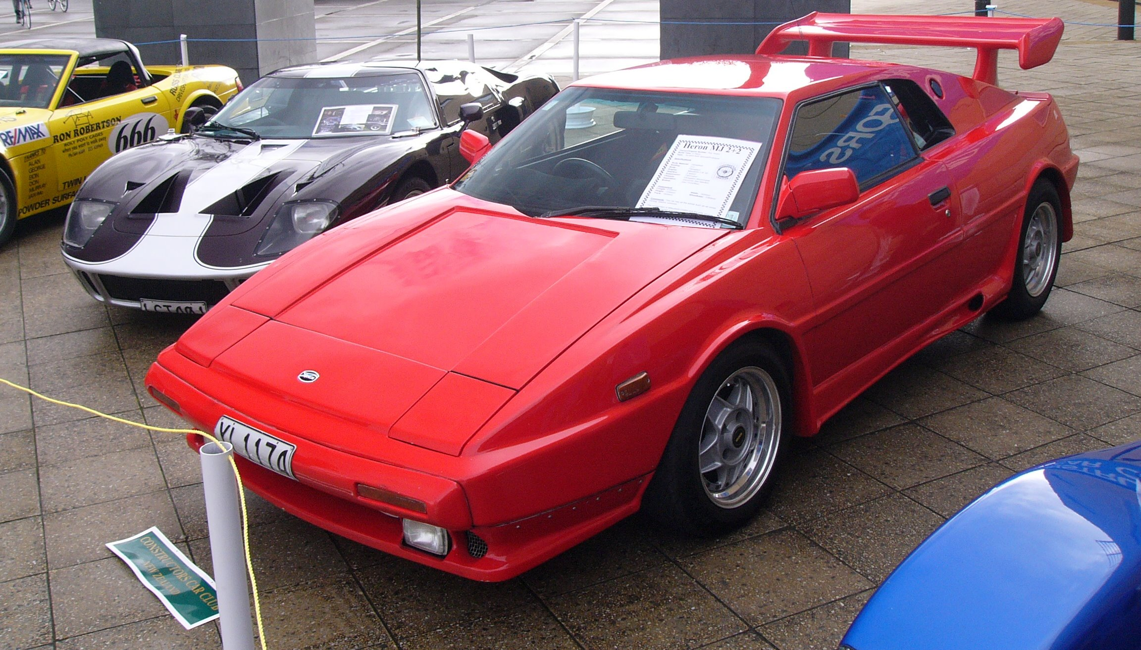 Photos taken at TePapa, Museum of New Zealand, Wellington